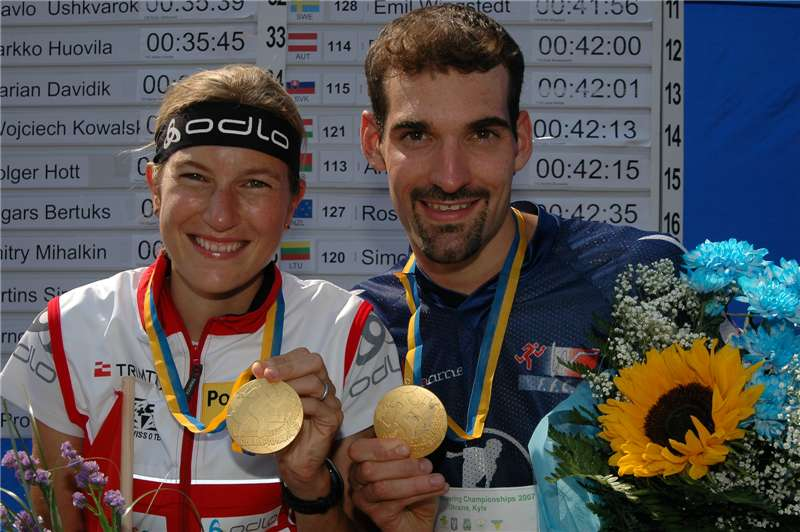 World Orienteering Championships 2007 in Kiev, Ukraine. On photo winners middle distance Swiss Simone Niggli-Luder and Frenchman Thierry Gueorgiou.